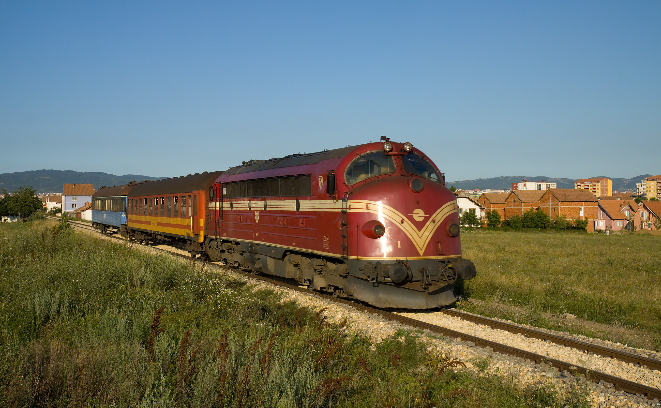 Former Norwegian Di 3 locomotive, now Kosovo Railways number 007, on its way back from Prishtinë to Fushë Kosovë